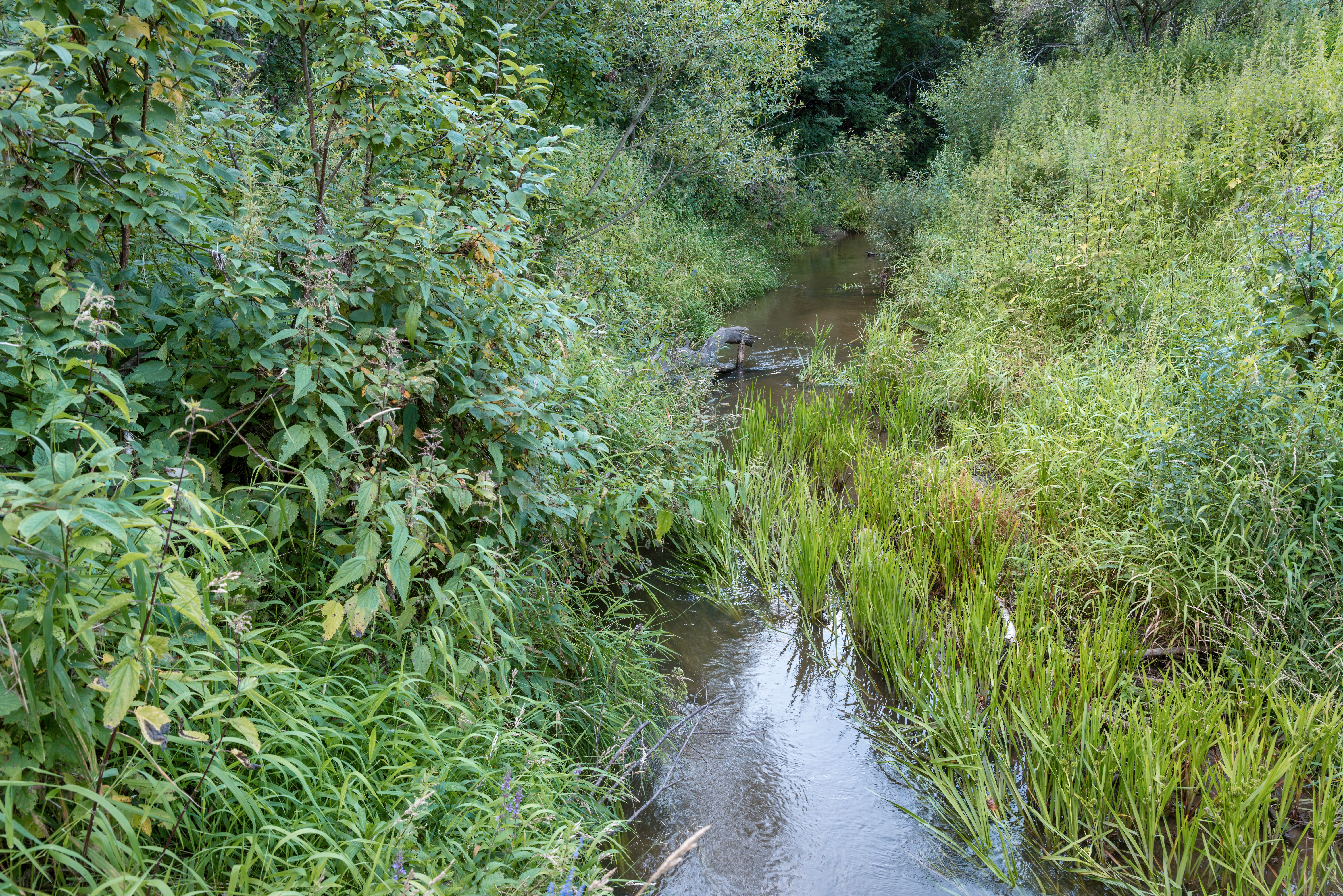 Toymina river near Dor village. Yaroslavl Region, Russian Federation.